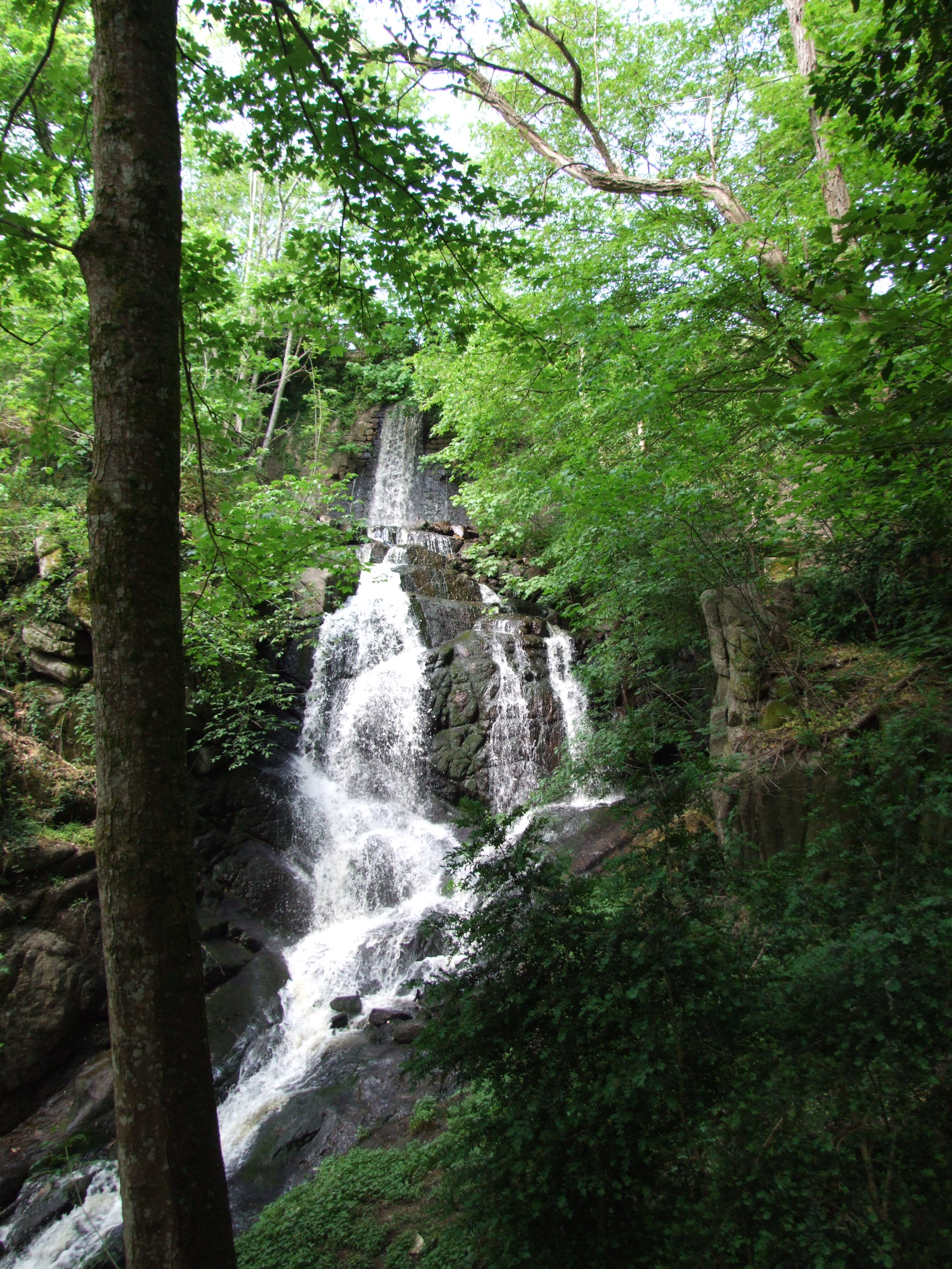 Lormes, Burgundy, FRANCE